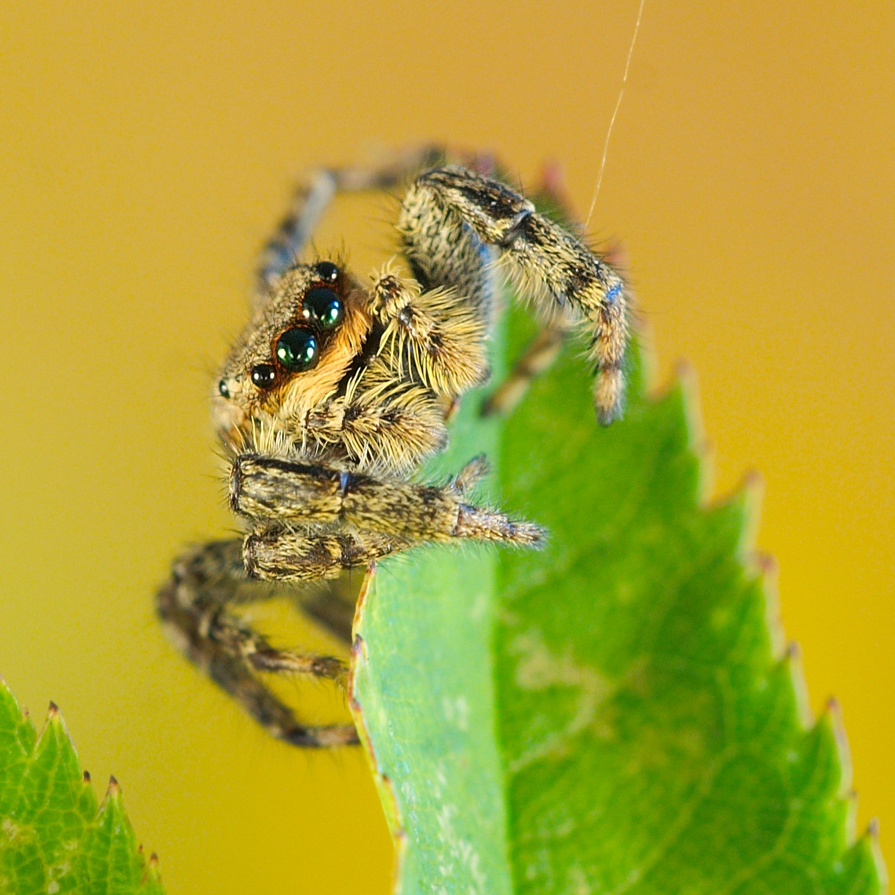 Marpissa muscosa jumping spider.